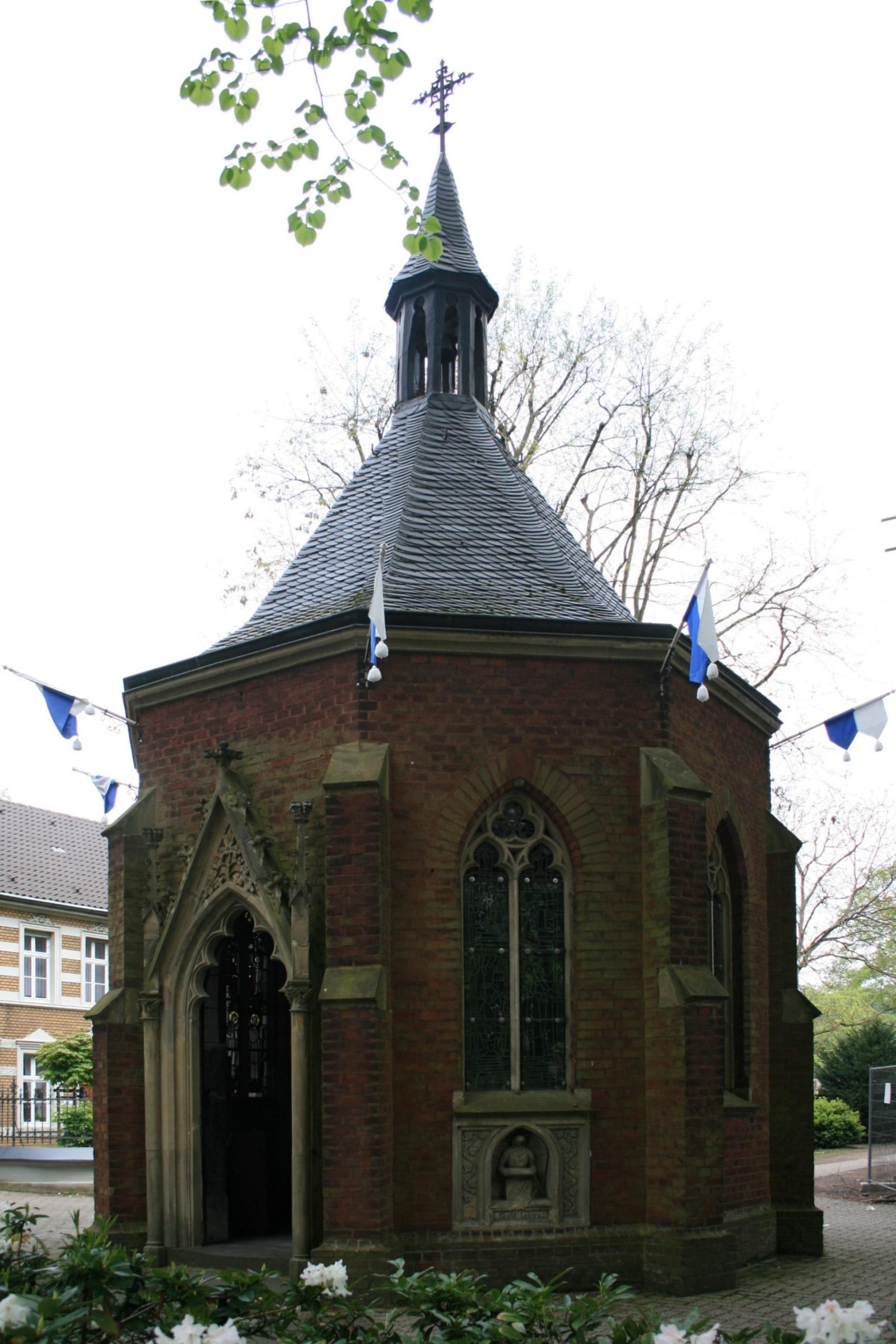 Cultural heritage monument No. H 034 in Mönchengladbach